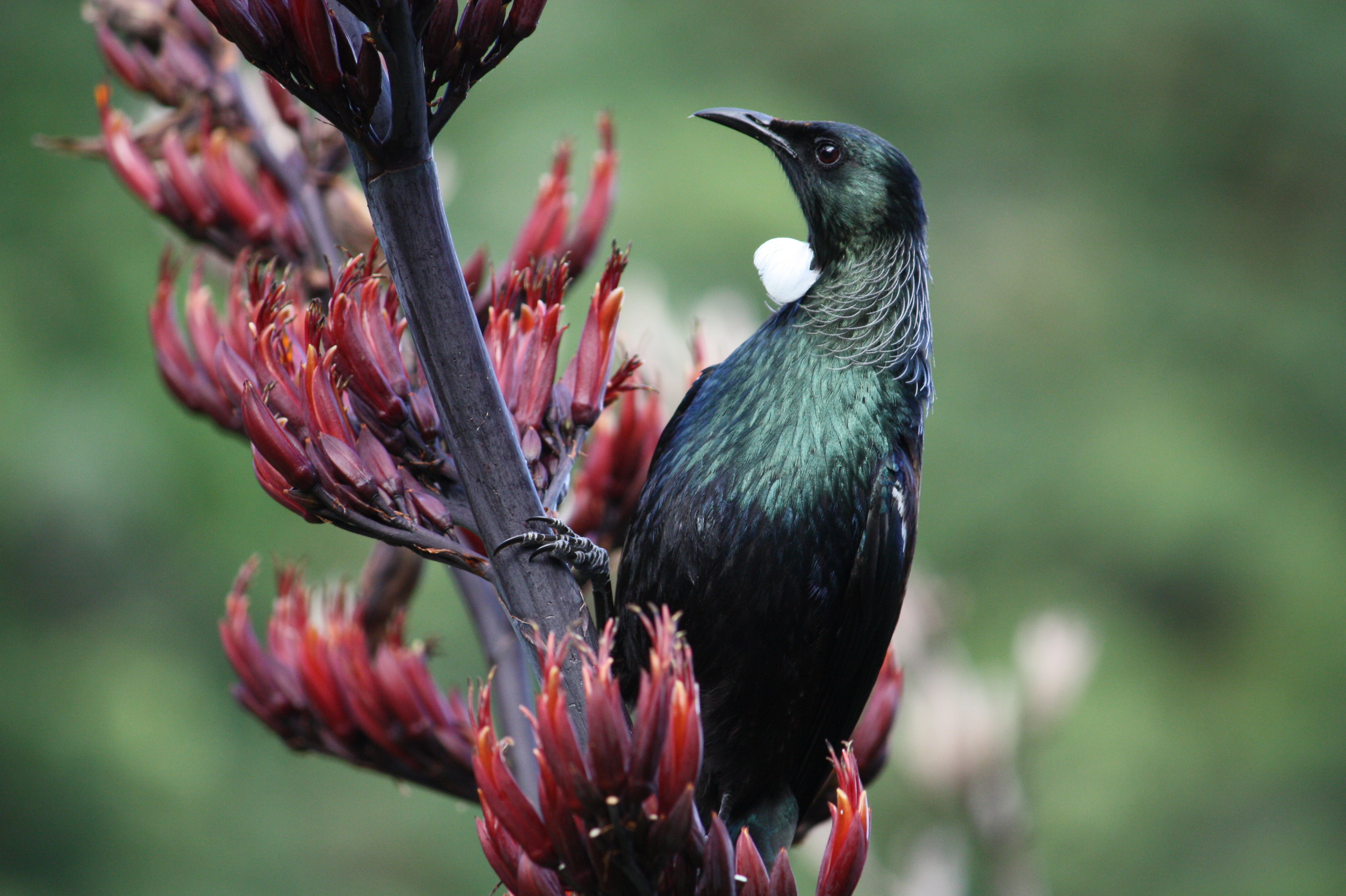 A New Zealand Tui on Phormium Tenax